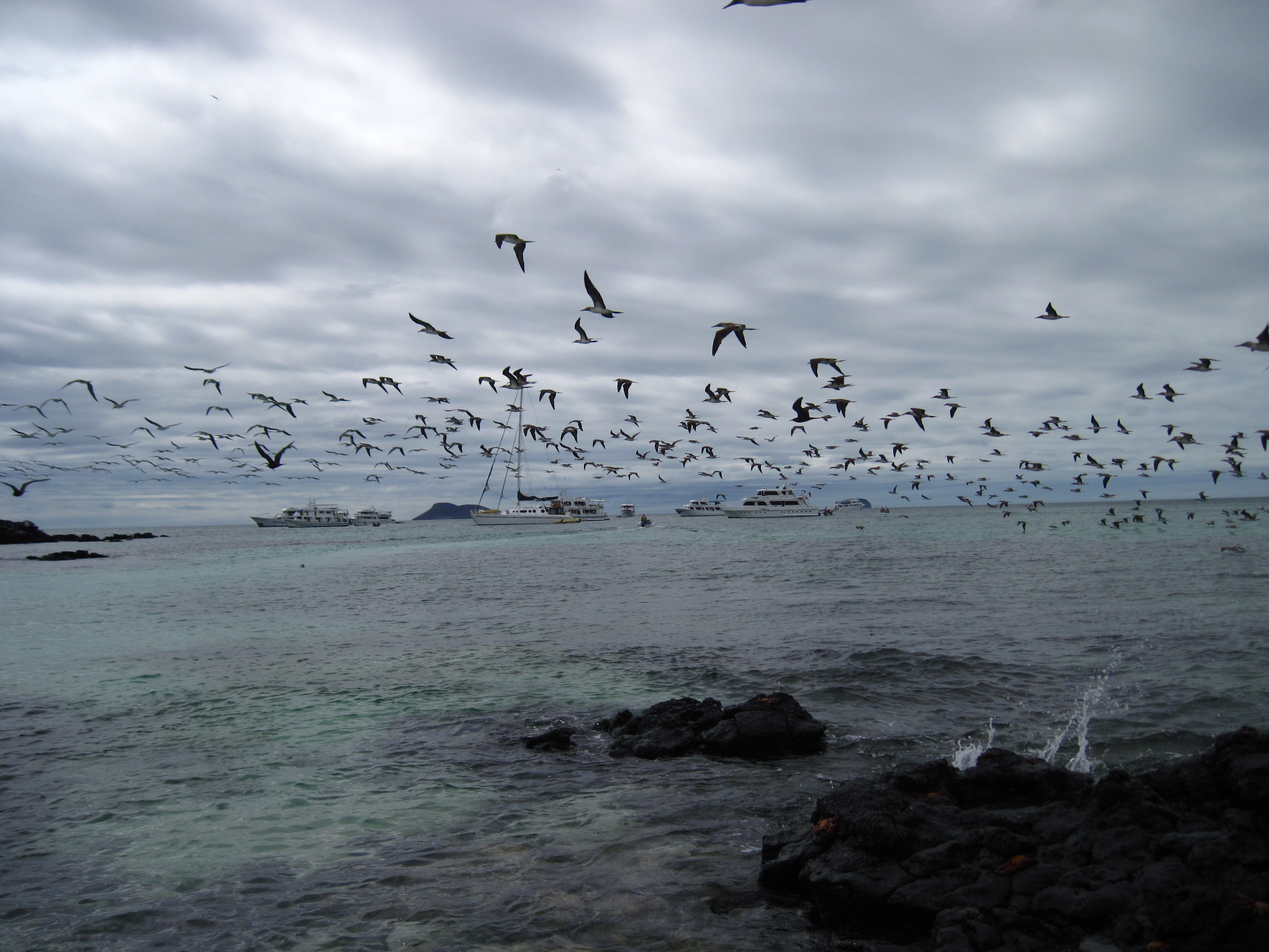 Blue-footed Booby Sula nebouxii flock fishing in a large group off of Las Bachas, Santa Cruz Island.